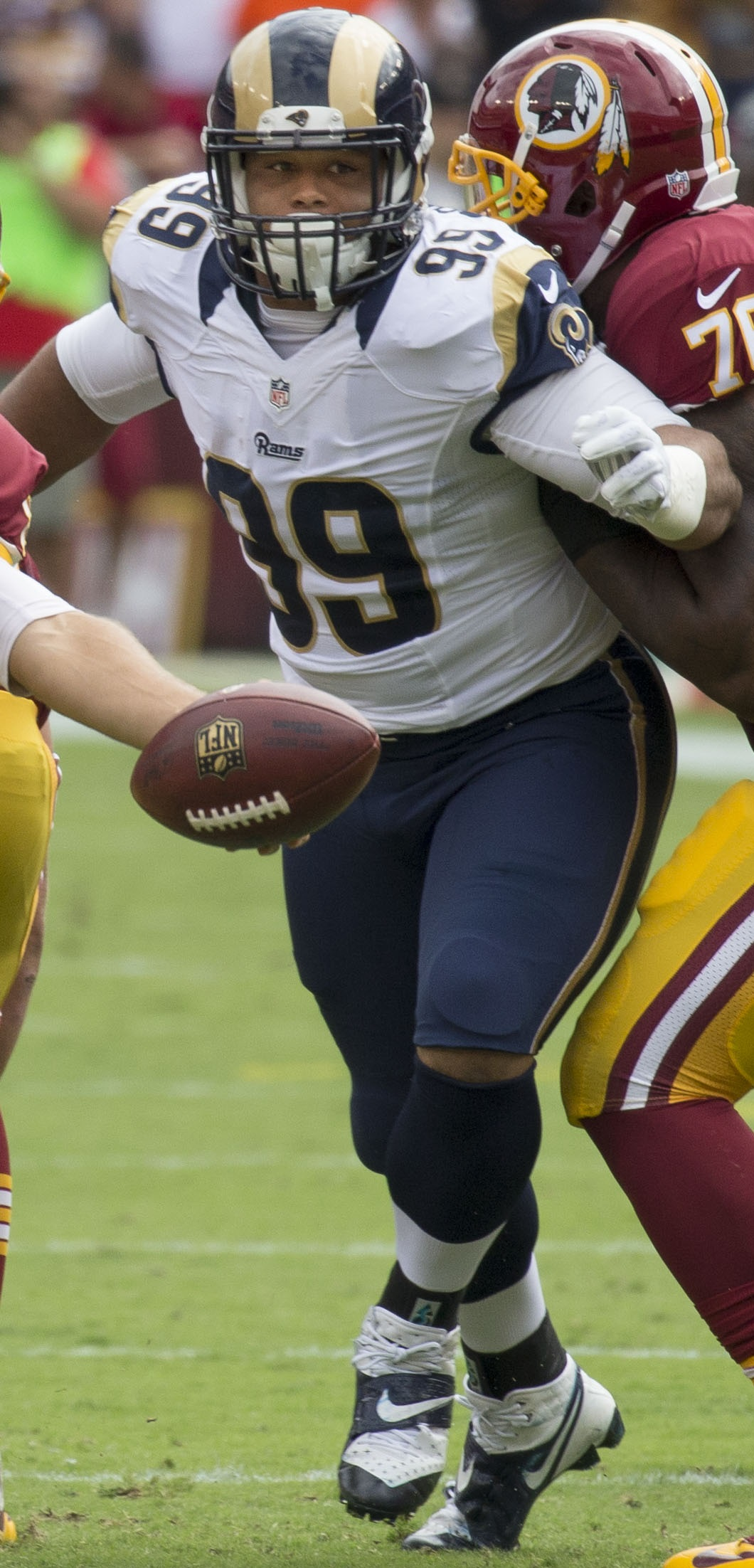 Rams at Redskins 9/20/15